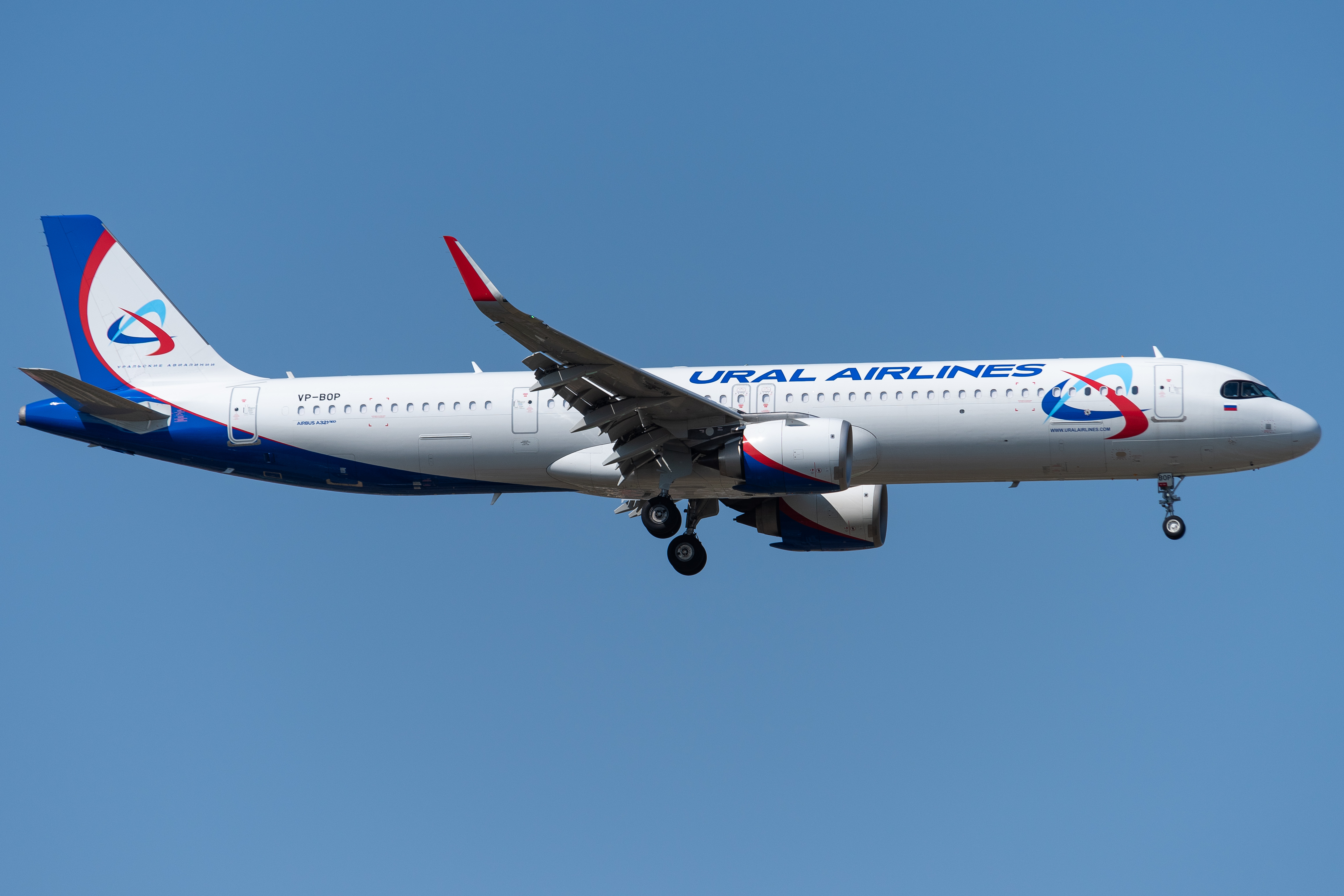 Sverdlovsk Air 3707 from Yekaterinburg. A nice A321NX at runway 01...